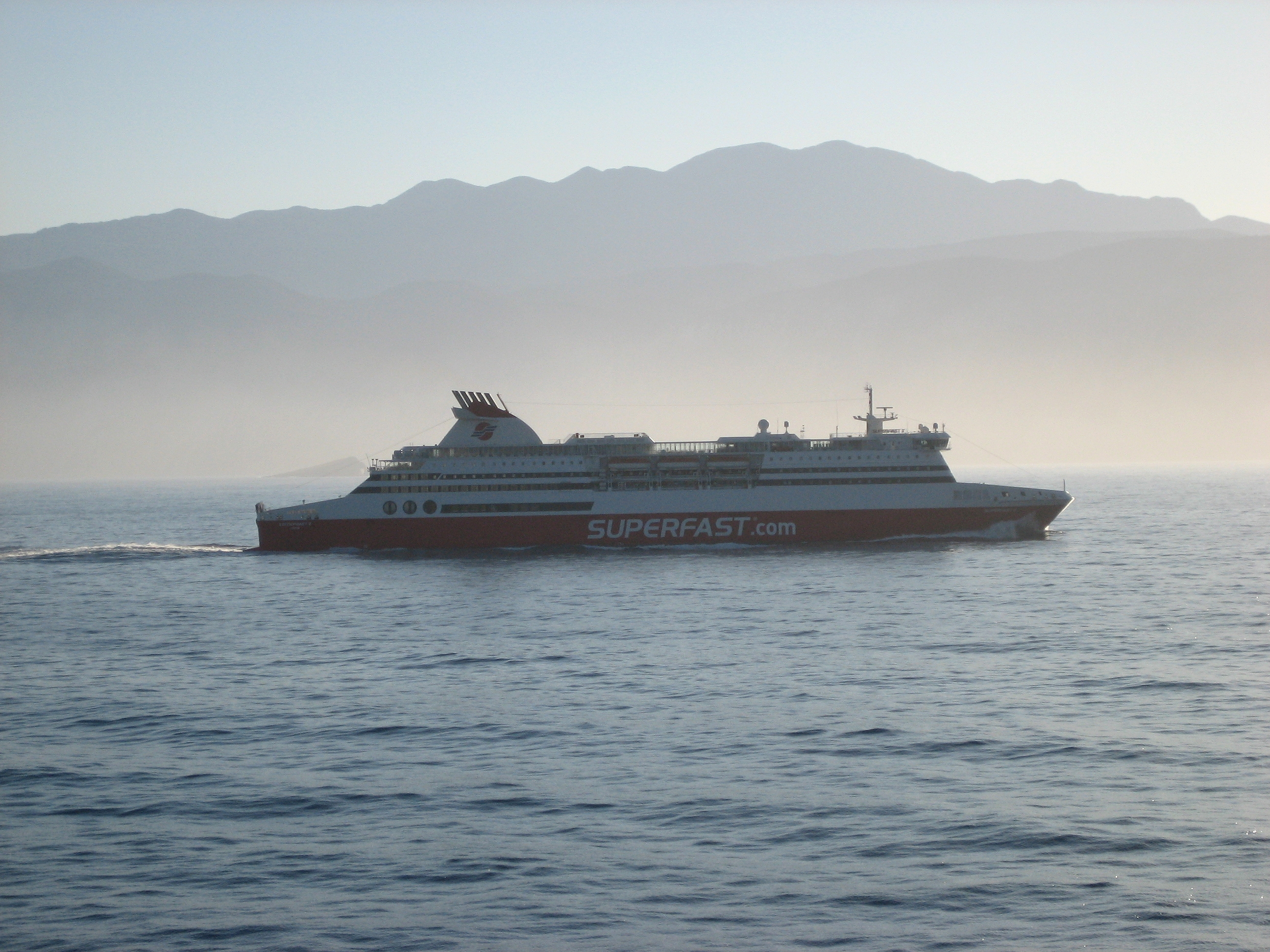 Superfast ferry with western greece mountains in the background